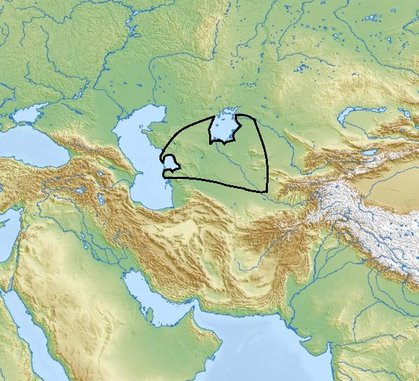 Map of the Kelteminar culture, based on a map printed at page 326 in Encyclopedia of Indo-European Culture, which was edited by J. P. Mallory and Douglas Q. Adams, and published by Taylor & Francis in 1997.